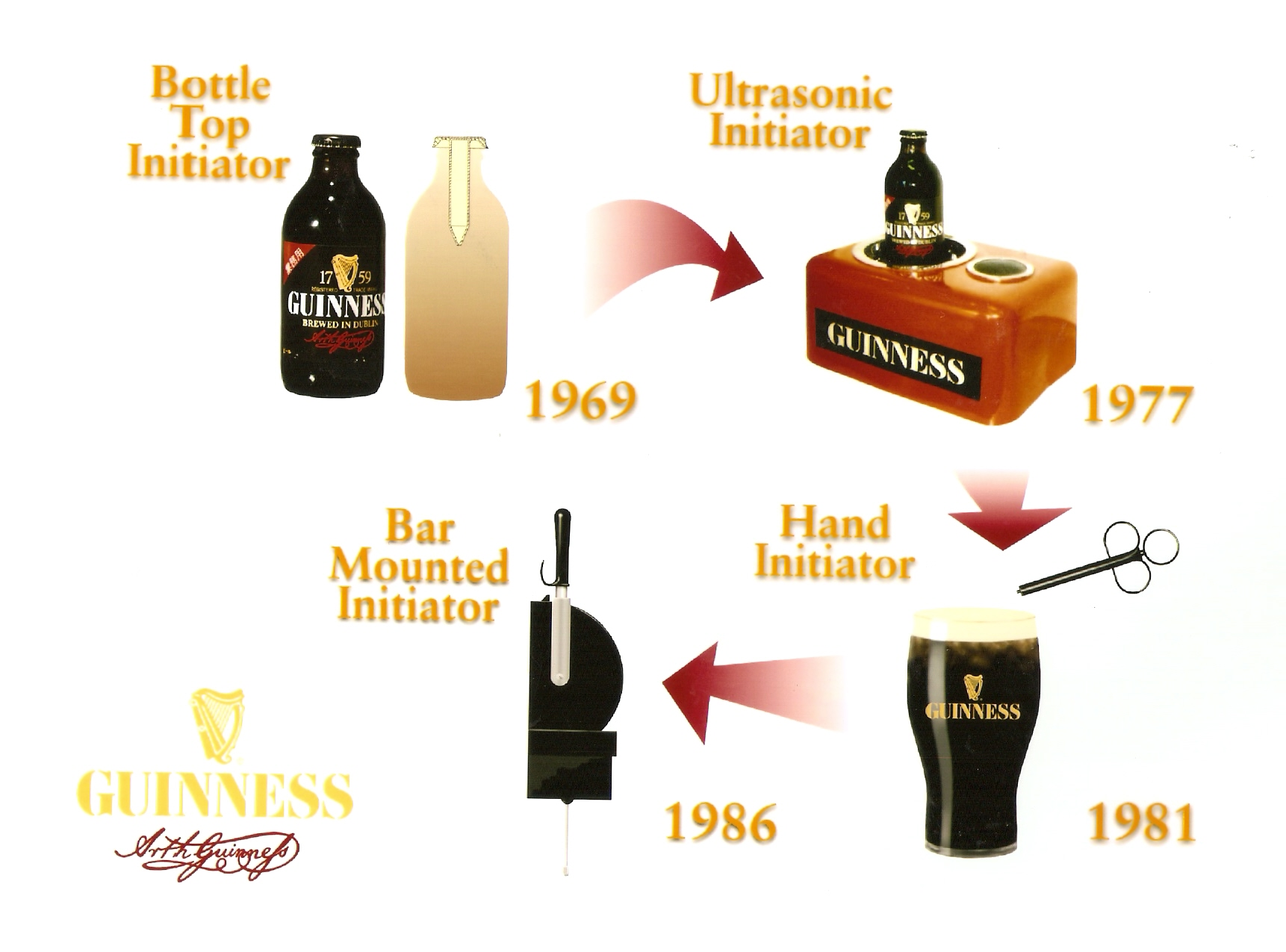 Show early development sequence of Bottled Draught Guinness